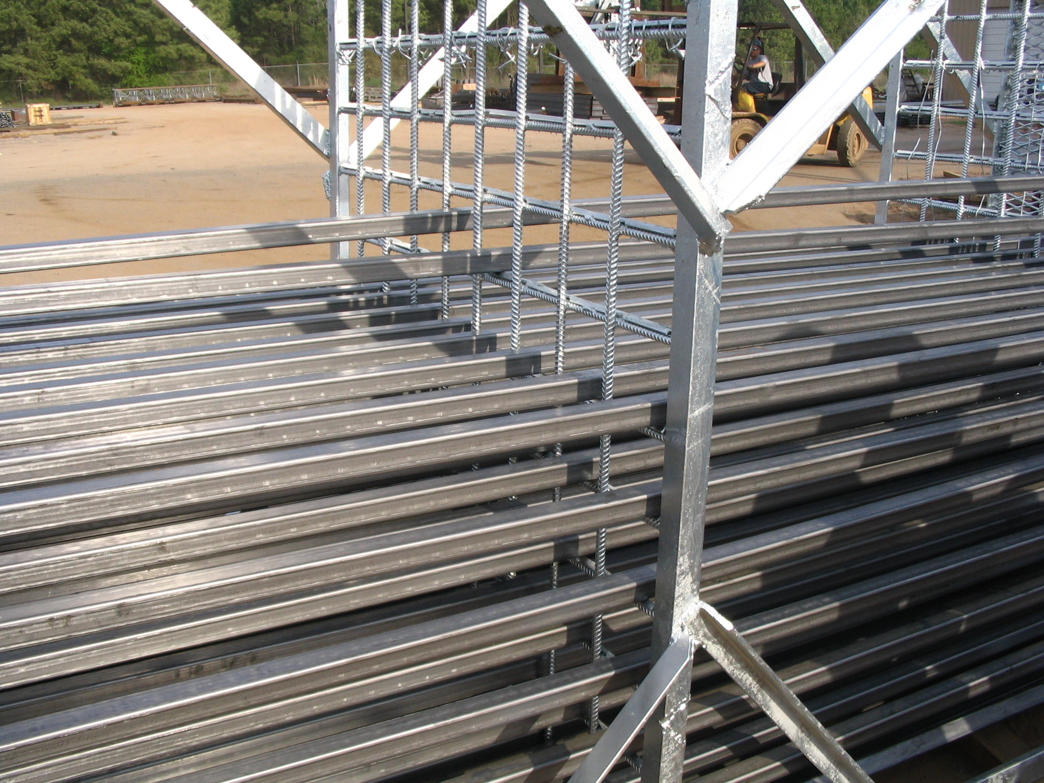 I took this picture during a tour of Aztec Galvanizing's facility in Waskom, TX. Picture taken 3/22/07.